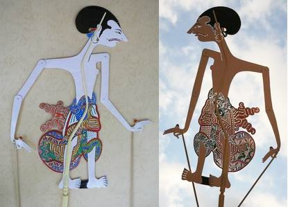 Amir Hamzah, heroe in the epos Serat Menak Sasak, Wayang Kulit from Lombok.